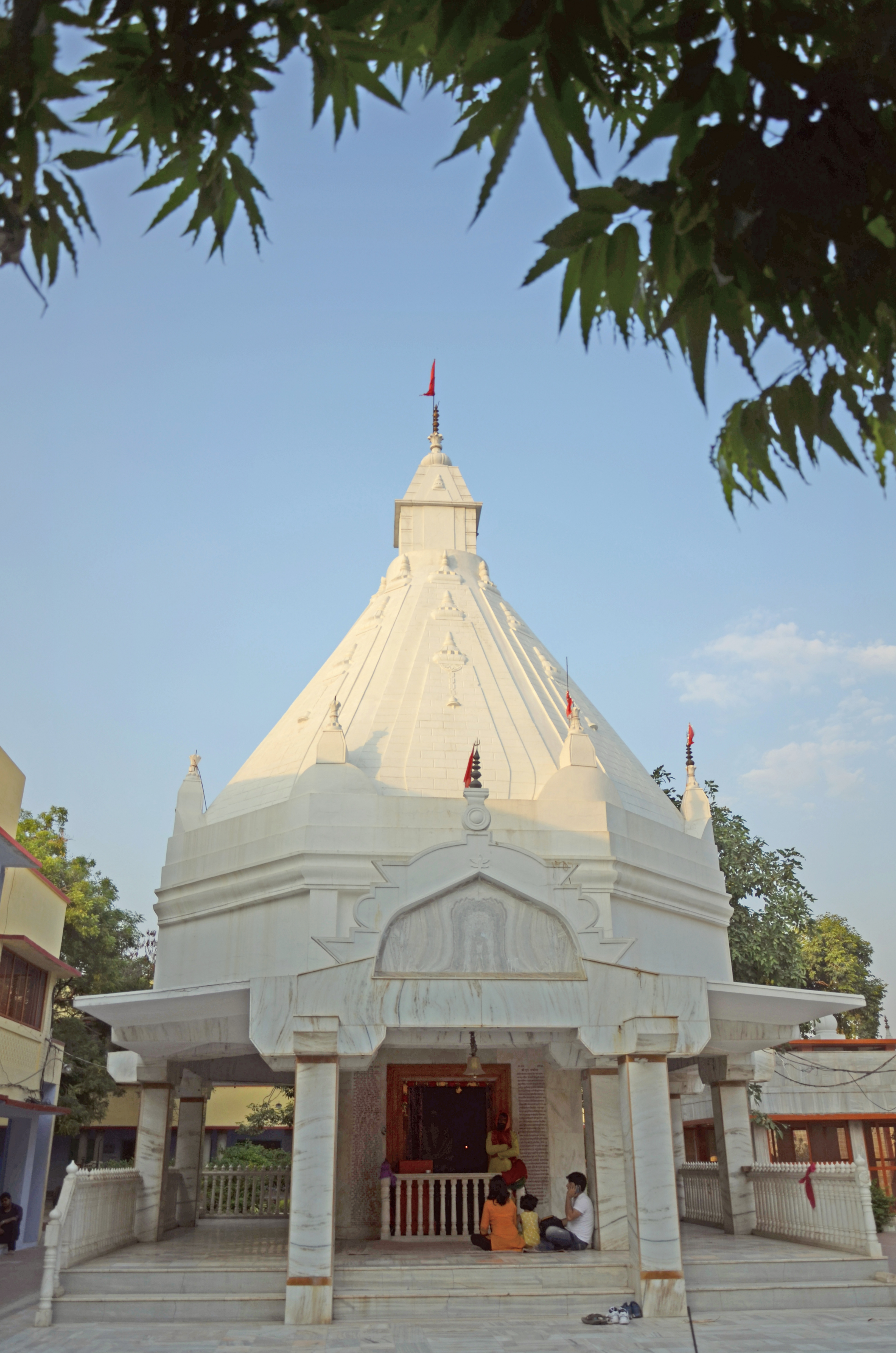 Neem Karoli Baba, Samadhi Mandir, Vrindavan.